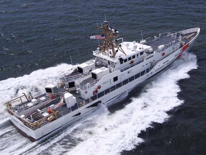 Newly delivered USCGC Charles Sexton, underway